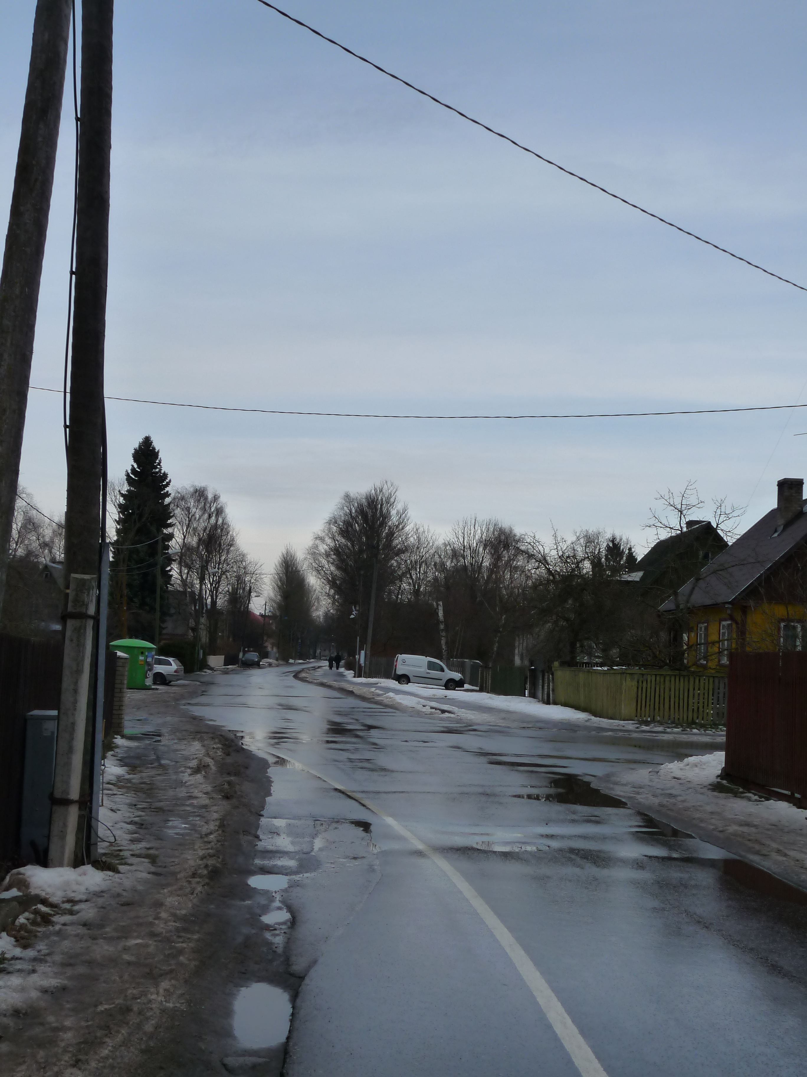 Mooni street in Tallinn, Estonia